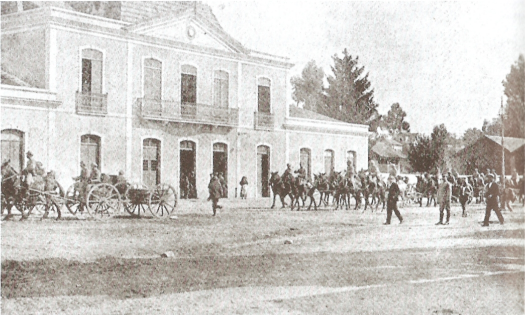 Street side of the Viseu Railway Station, in Portugal, near 1920.